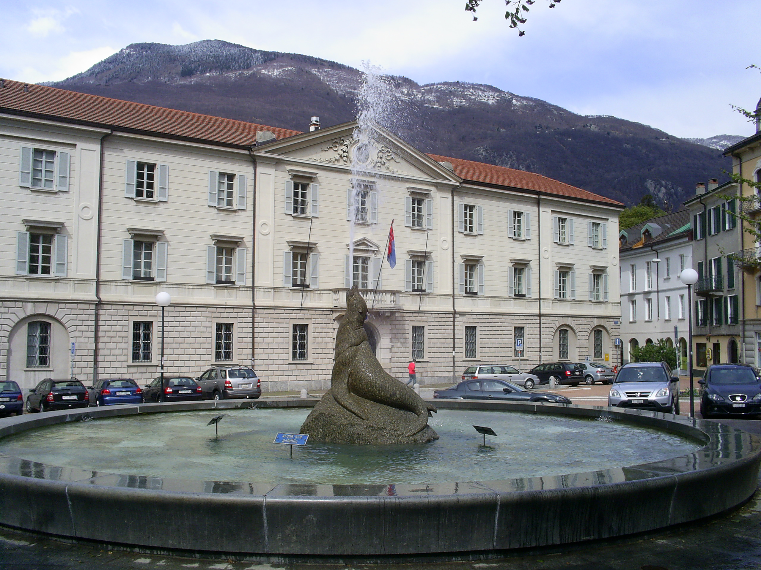 Palace of the Ticinese government in Bellinzona.